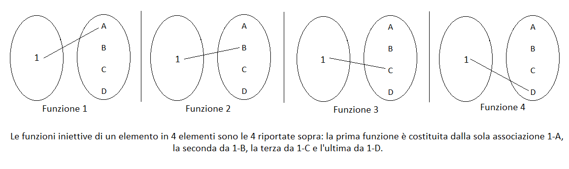 Injective functions of one element to four elements